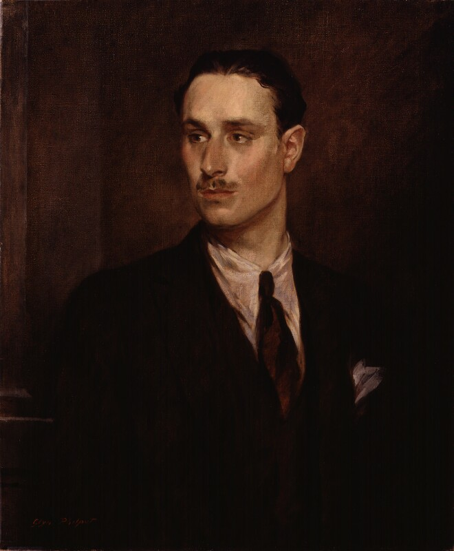 Larger Image Image Zoom Buy a print of this today Use this image Oswald Mosley by Glyn Warren Philpot oil on canvas, 1925 30 in. x 25 in. (762 mm x 636 mm) Lent by the sitter's son, Lord Ravensdale, 1984 Primary Collection NPG L184